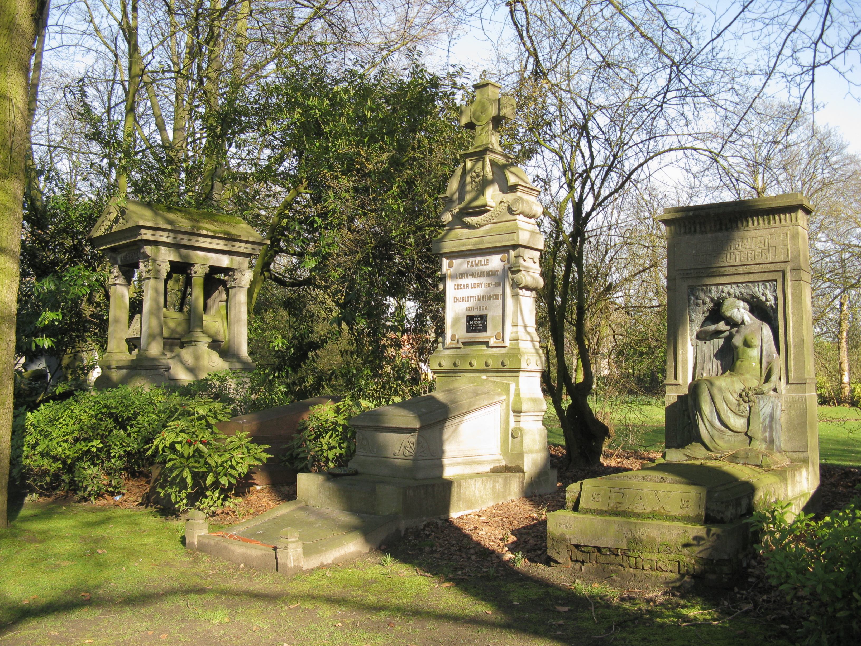 Cemetery "Westerbegraafplaats" at the Palinghuizen in Ghent, Belgium.